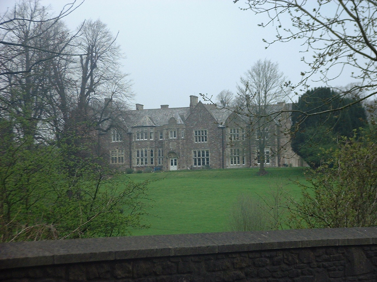 Sutton Court, Stowey. Taken by Rod Ward 26th April 2006